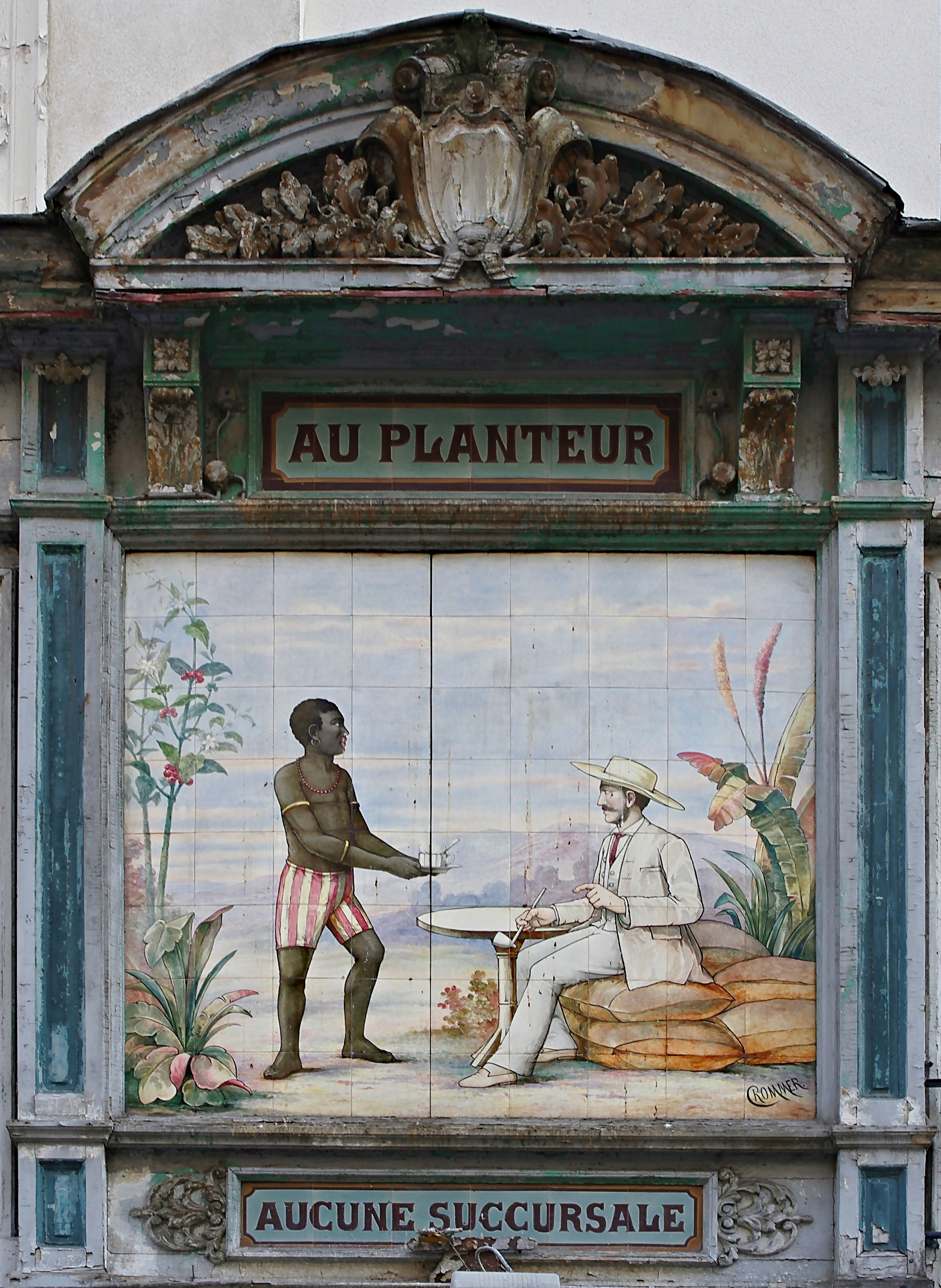 Former sign of a coffe roaster's (1890), clearly showing the colonialist ideology of the time, rue des Petits-Carreaux, Paris (2nd arrondissement), France. .